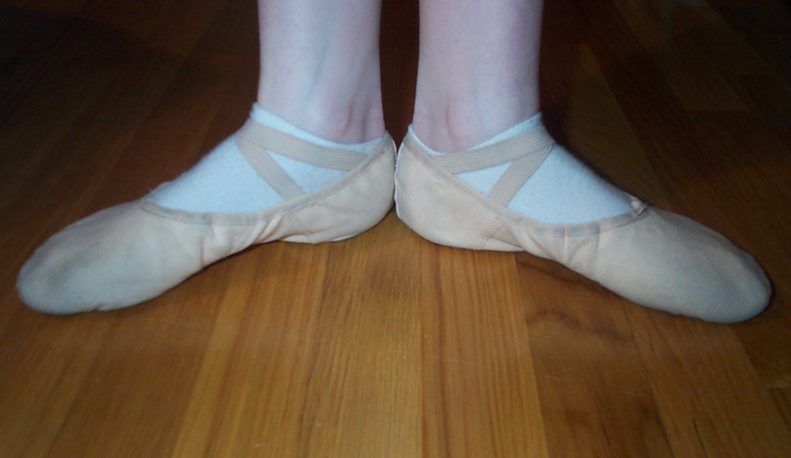 First position of the feet, turned out; intended as a quick example for turnout (ballet). 180 degree turnout is preferable, feel free to replace this image if such an image is procured. :]